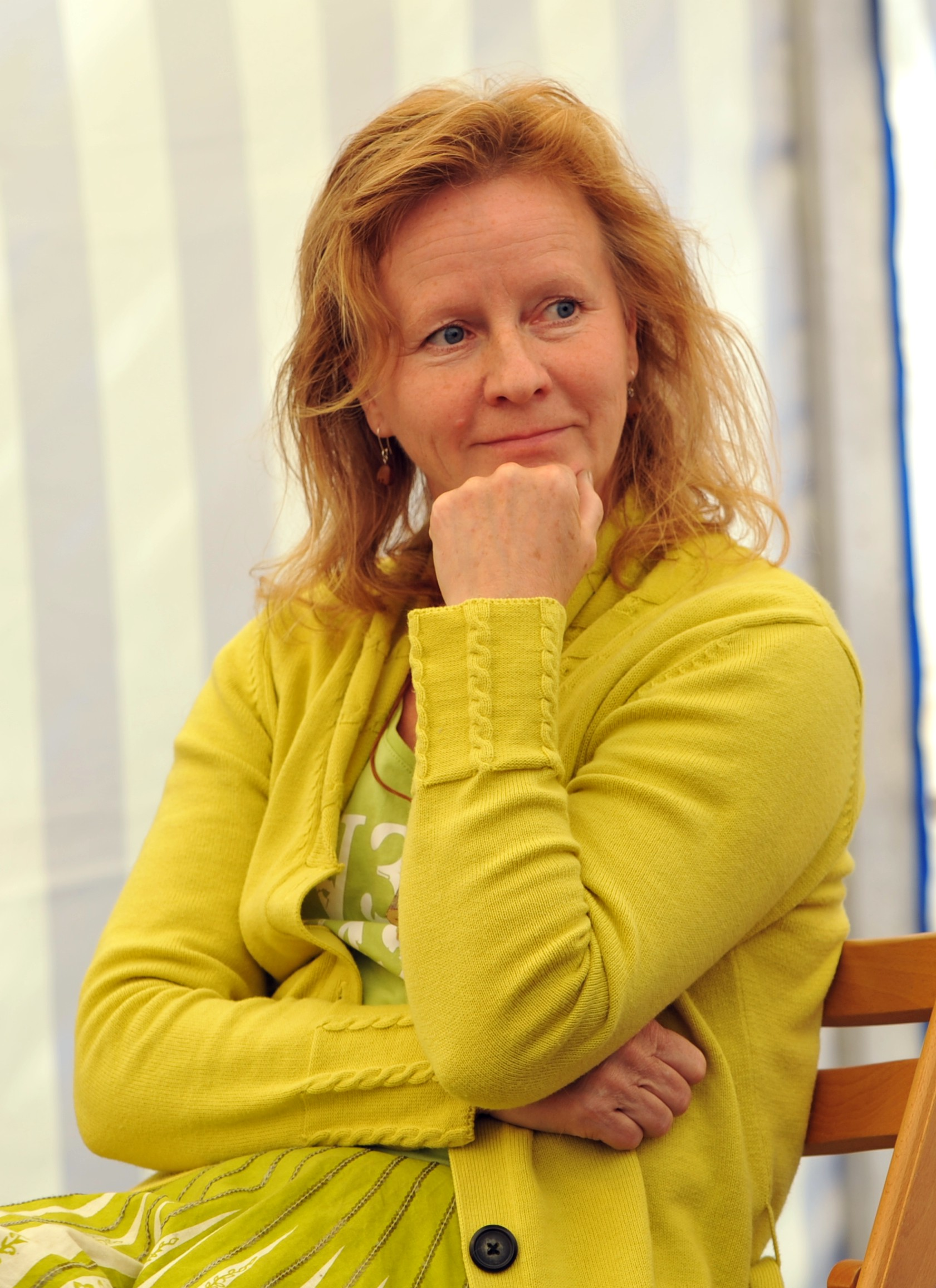 Kaija Juurikkala, Finnish film director, on World Book Day in Helsinki in May 2011.